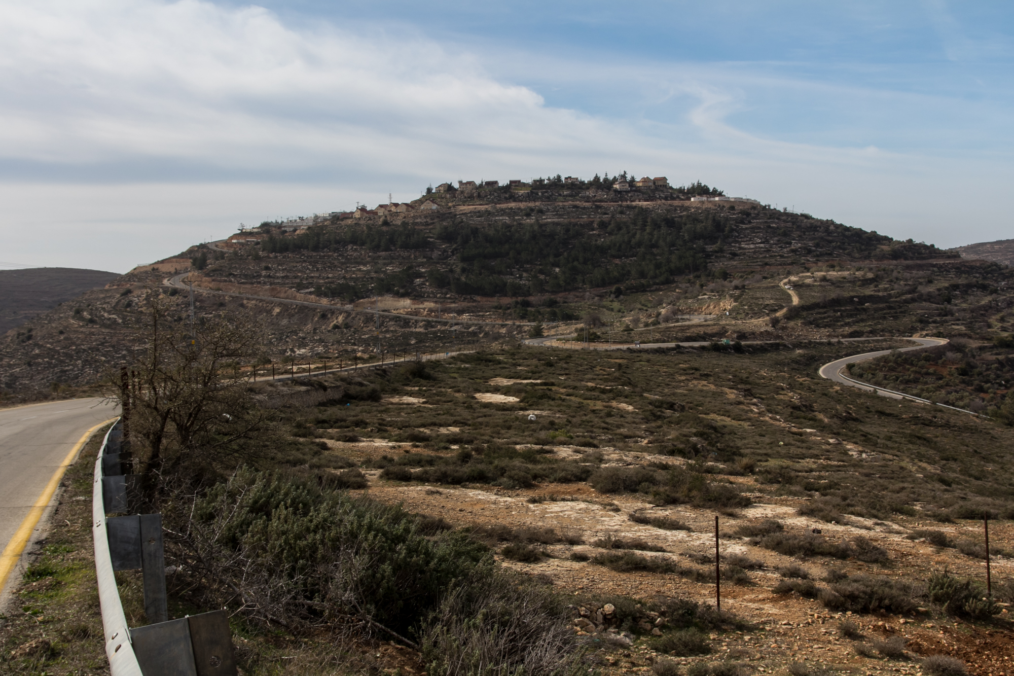 Peace Now's Price Tag tour, 31 January 31 2014. Israeli settlement of Maale Levona